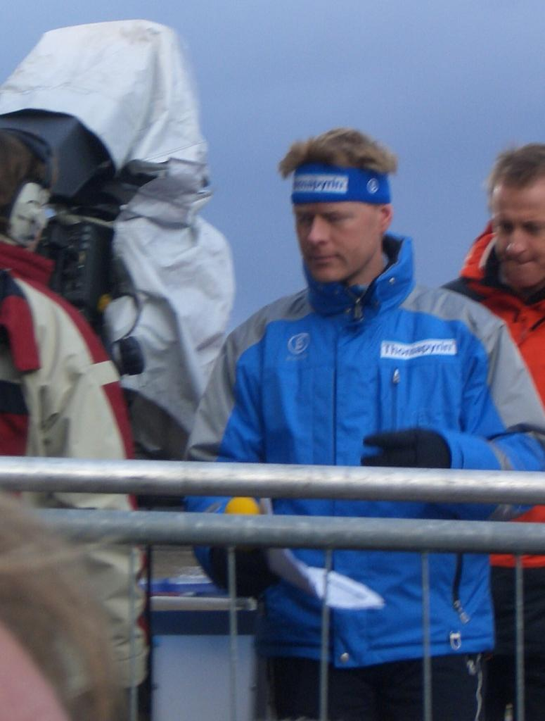 Former ski jumper Dieter Thoma during World Cup event in Titisee-Neustadt